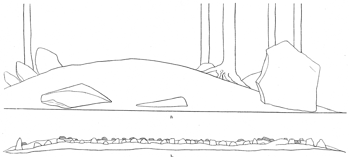 Megalithic tomb Barskamp 2